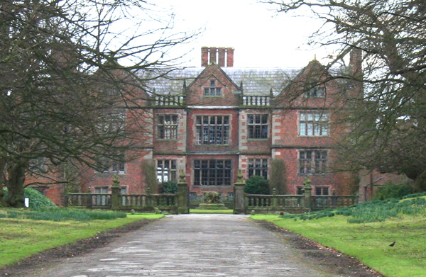 Dorfold Hall, Acton, near Nantwich, Cheshire.